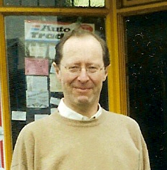 Nicholas Gervase Rhodes (1946-2011), Britsh numismatist